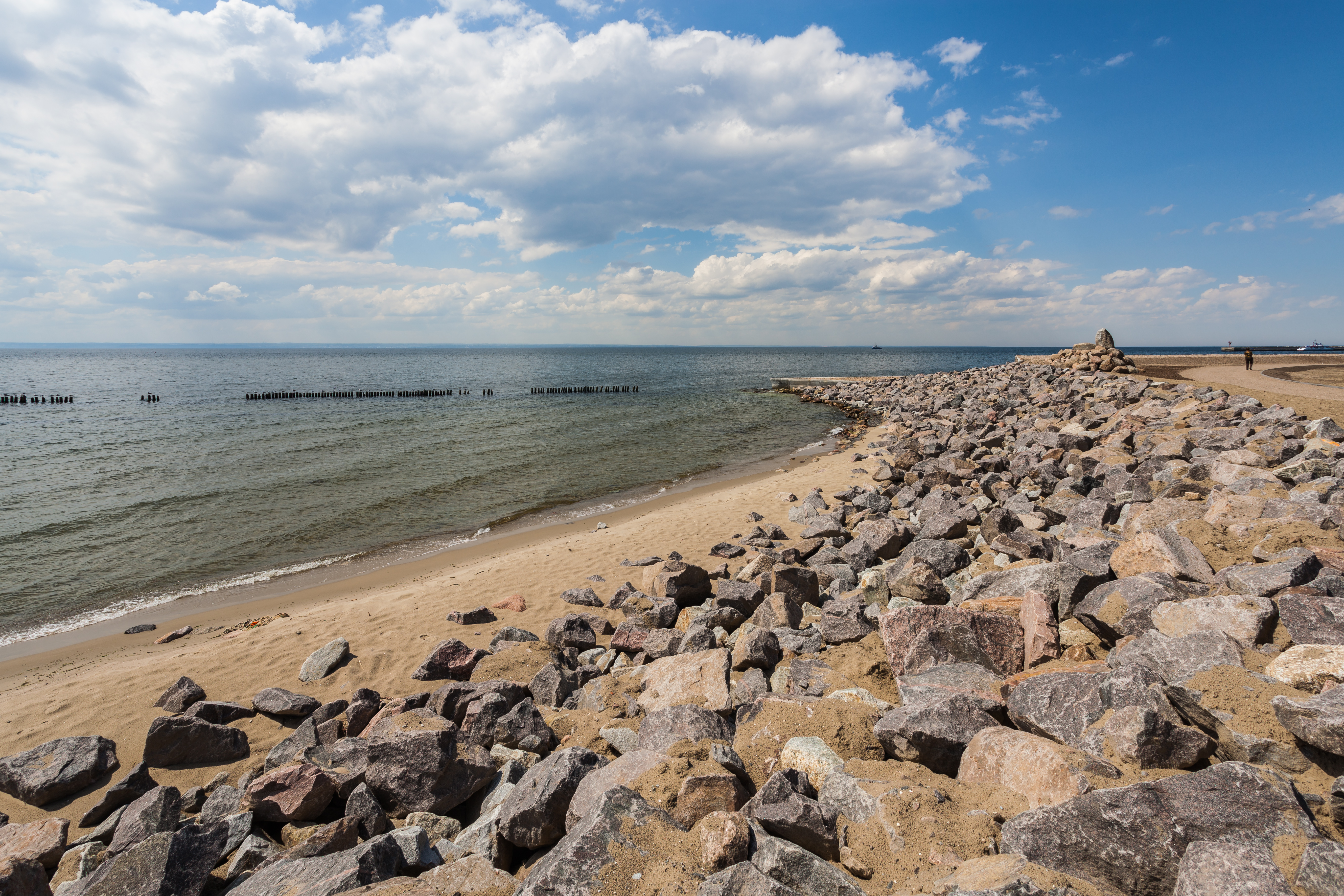 Coast of Hel, Poland